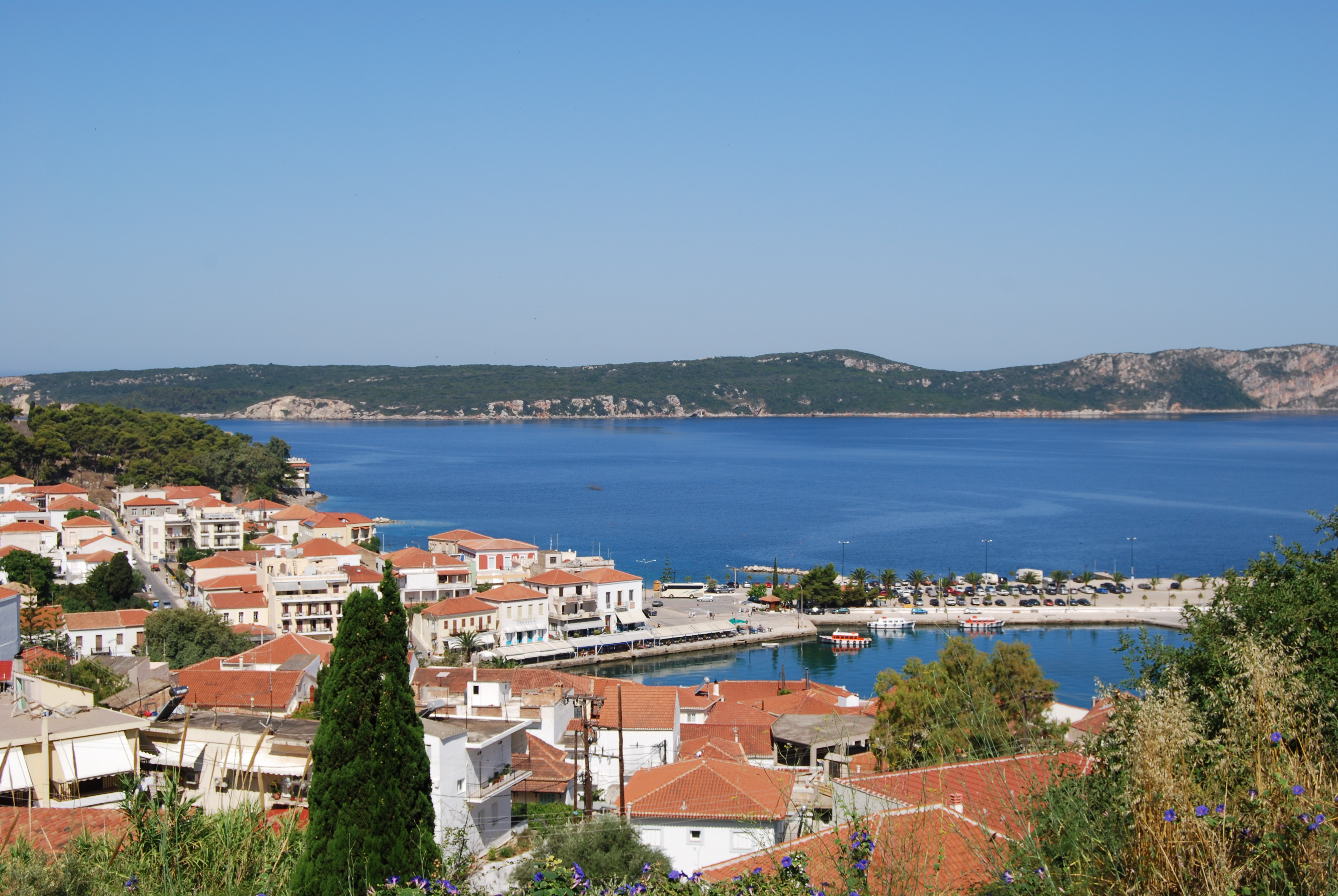 View of Pylos from the East; inner port, bay of Navarino and Sfaktiria